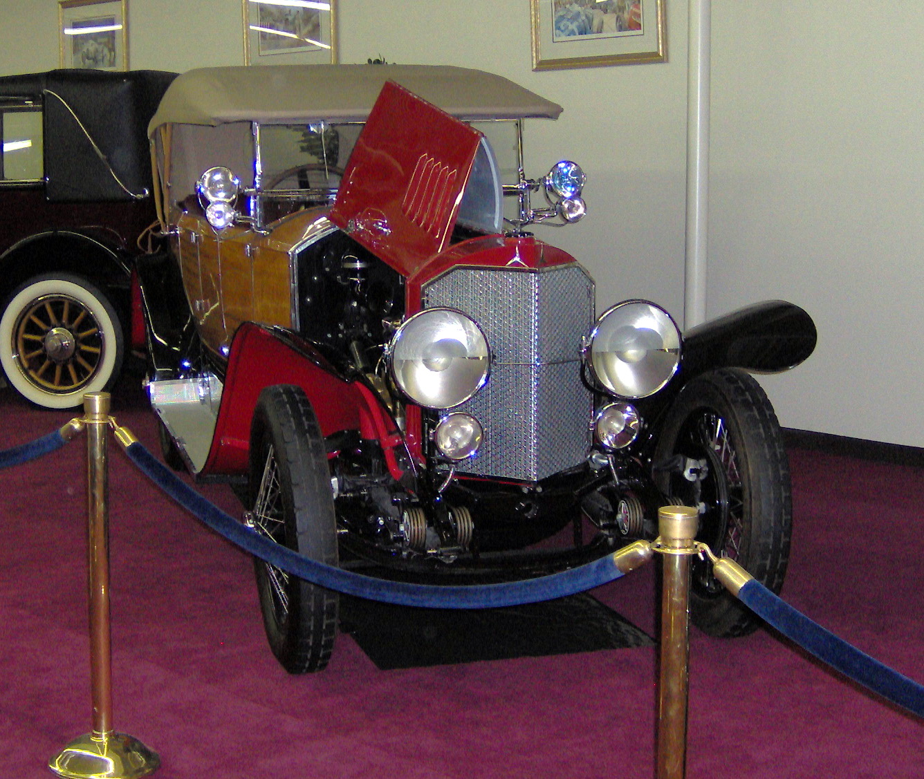 1924 Mercedes 28-95 Wooden Skiff Tourer